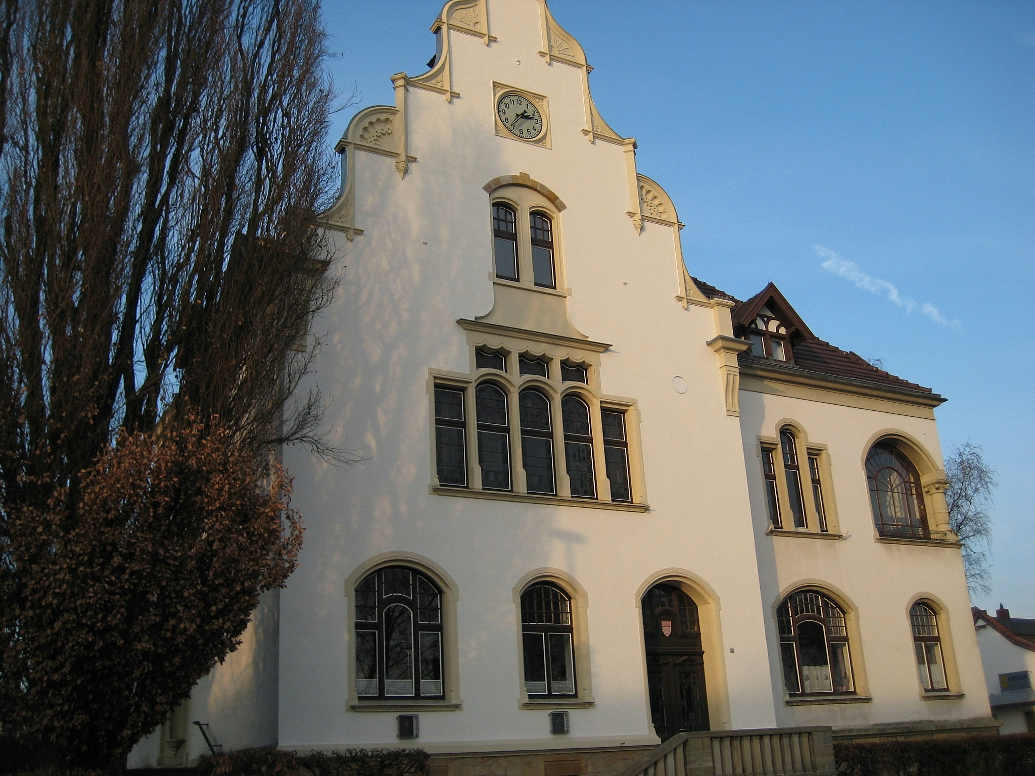 Old city hall in Bünde, District of Herford, North Rhine-Westphalia, Germany.